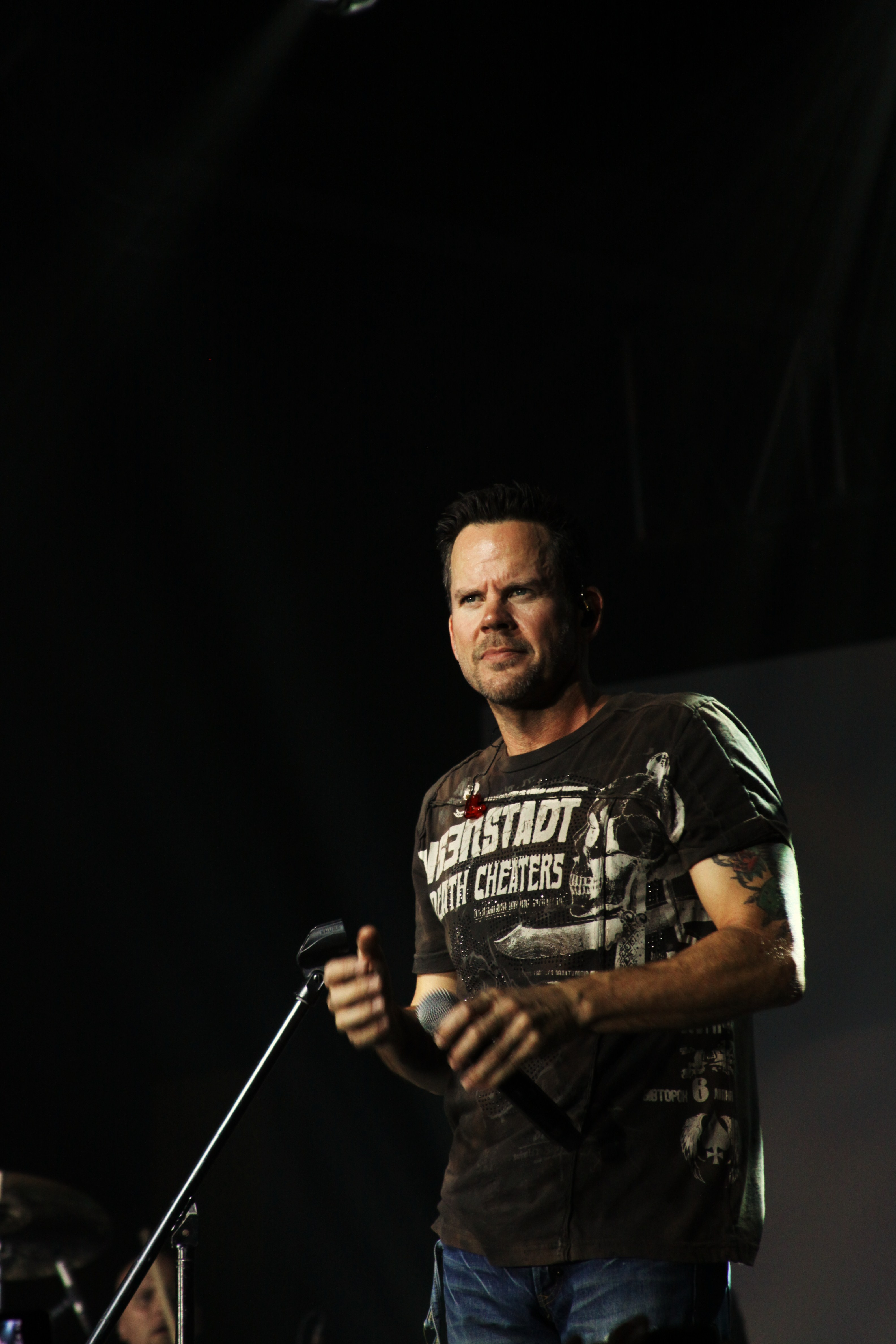 Gary Allan speaking with his fans at the Inn of the Mountain Gods in Mescalaro, NM